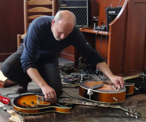 Dick Toering, Holly Moors